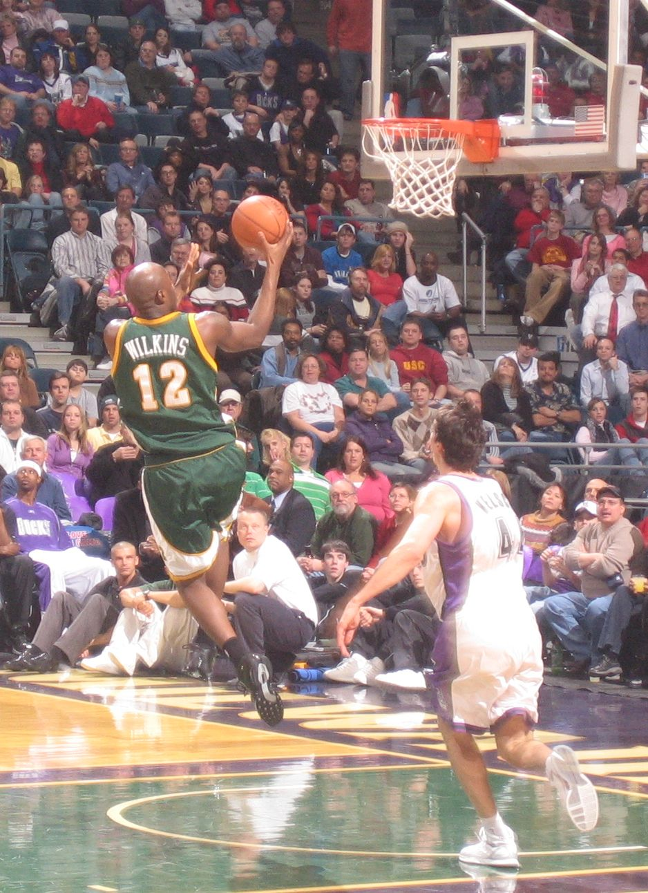 Taken by myself, Jeramey Jannene, on February 14th, 2006 when the Milwaukee Bucks played hosted to the Seattle SuperSonics at the Bradley Center in Milwaukee Wisconsin.